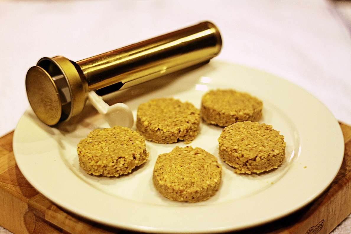 A falafel press and uncooked falafels.